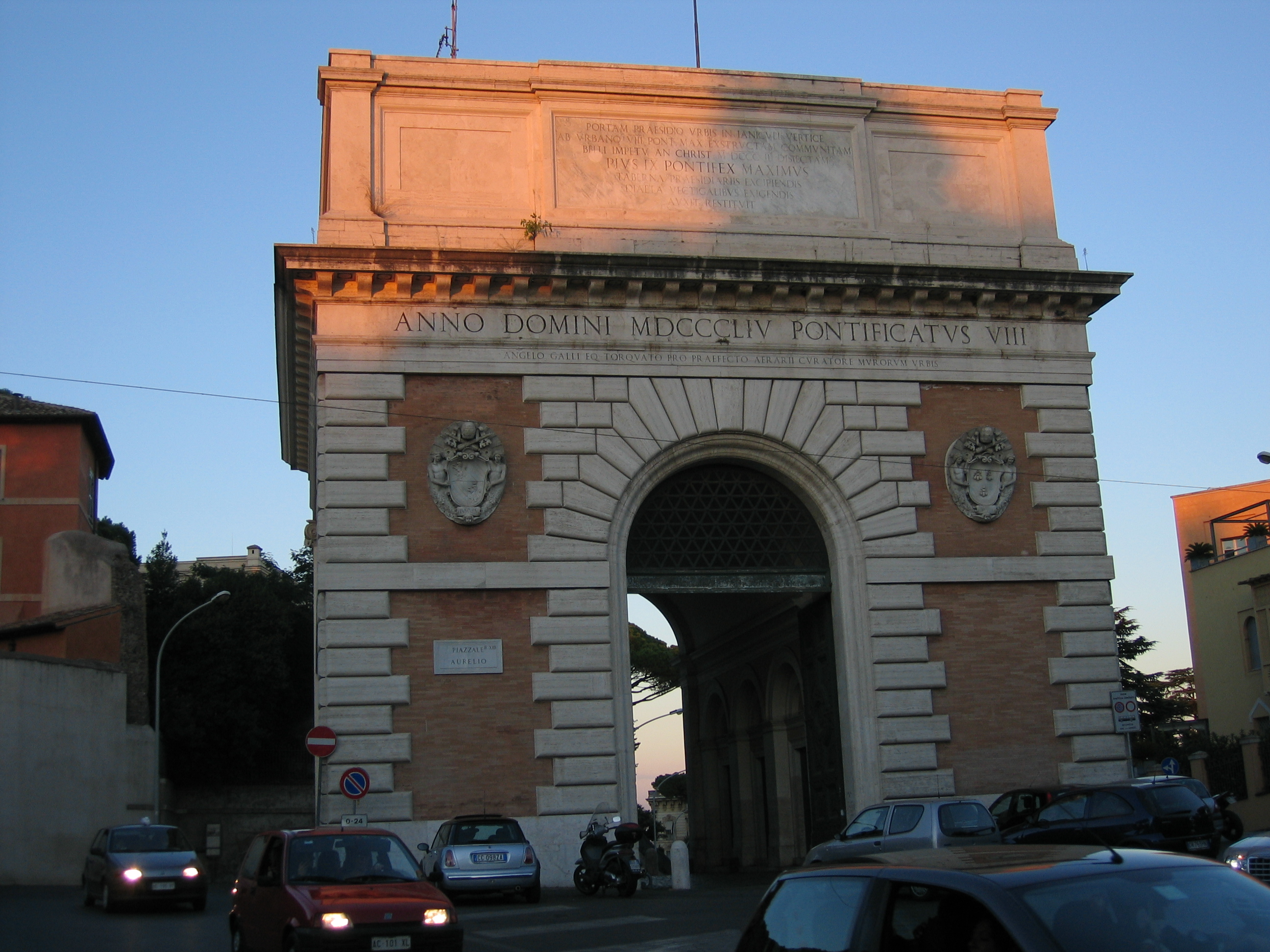 The Porta San Pancrazio gate in Rome, Italy.